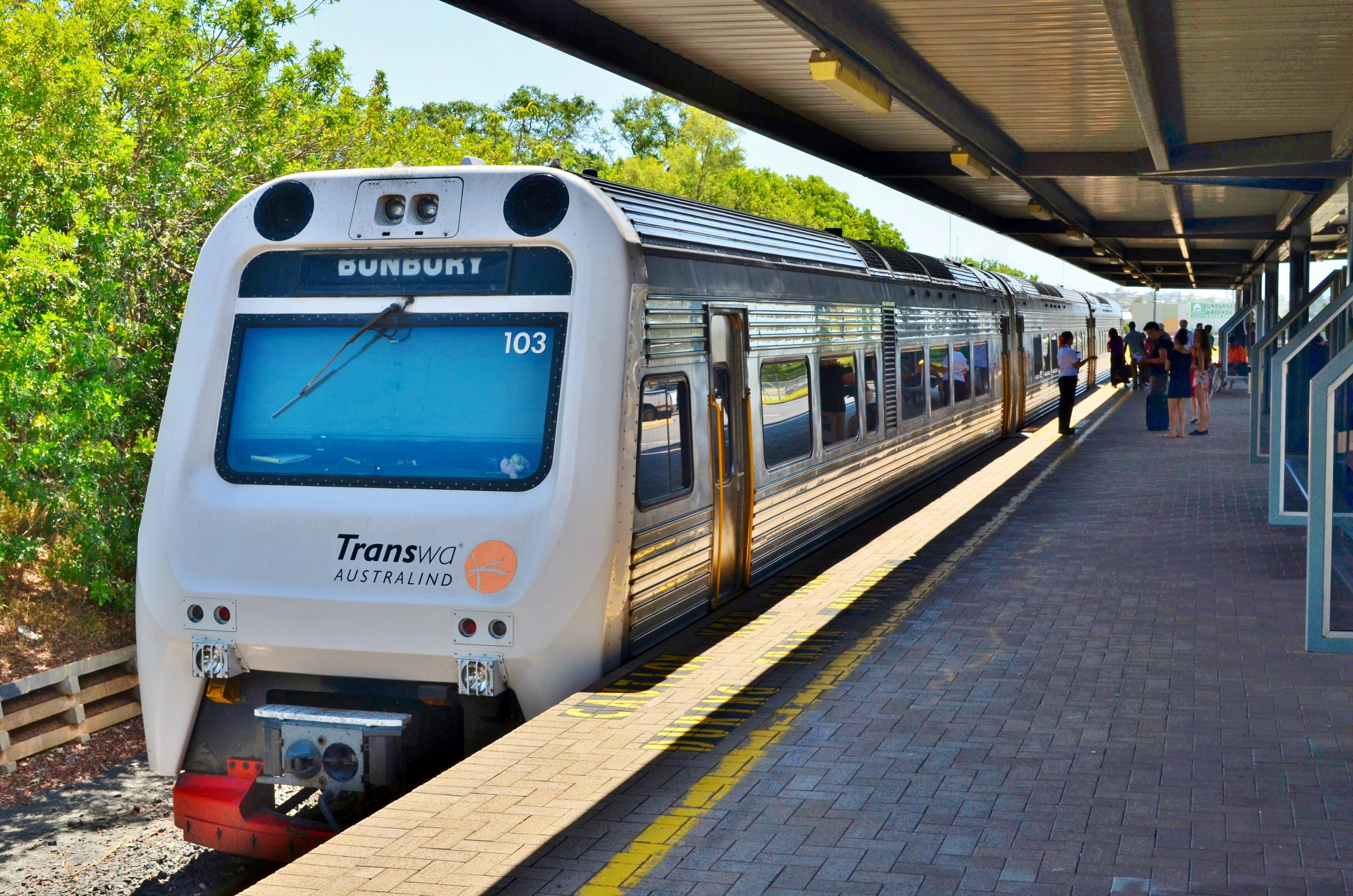 The Transwa Australind awaits its 2:45 pm departure for Perth railway station at the Bunbury Passenger Terminal (which is said to be in Wollaston, Western Australia, but appears to be in East Bunbury, the official name of the locality).